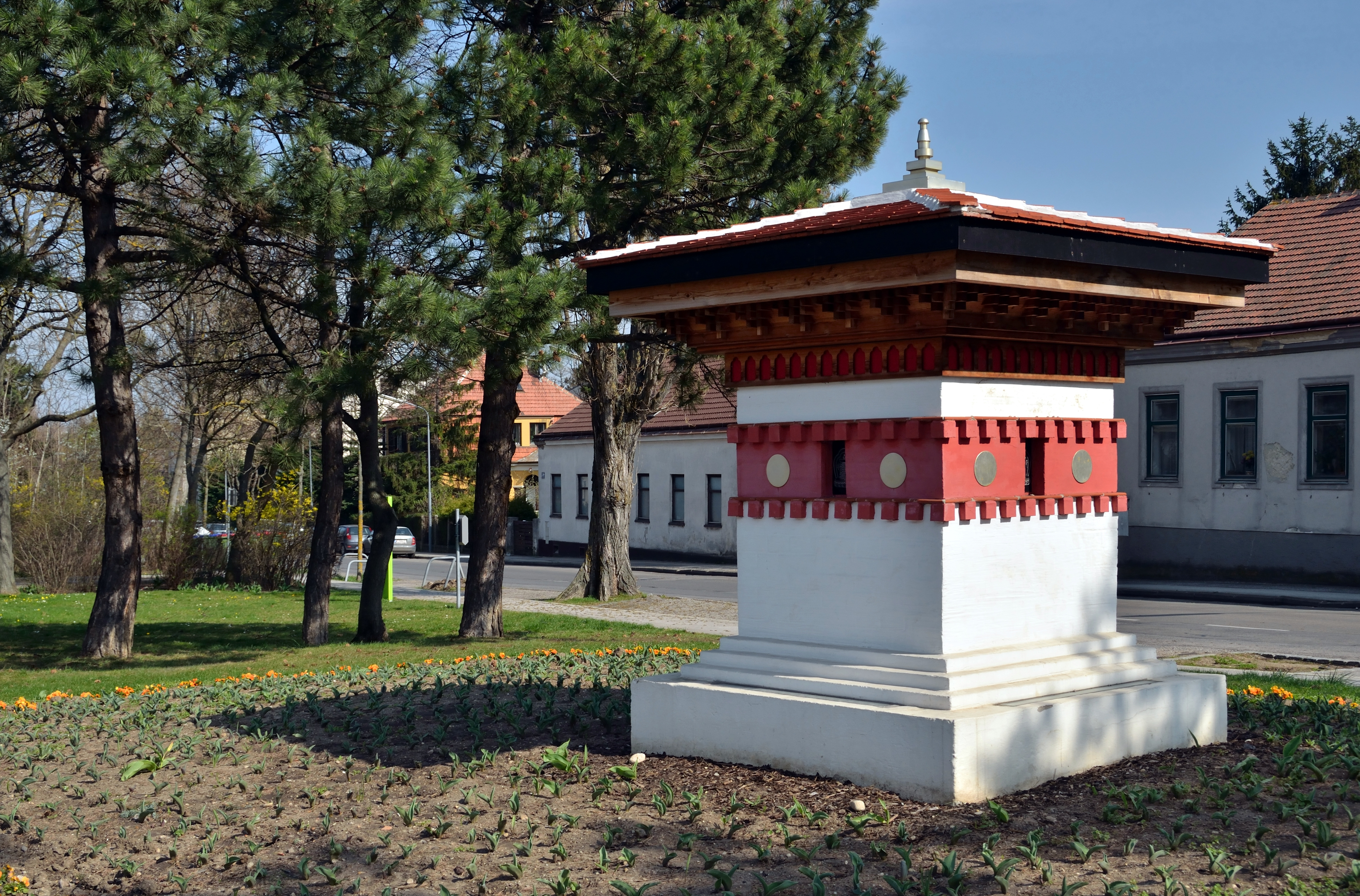 The Druk Yul park is a small park in Liesing, Vienna between Speisingerstraße and Rosenhügelstraße. It is related to Bhutan.